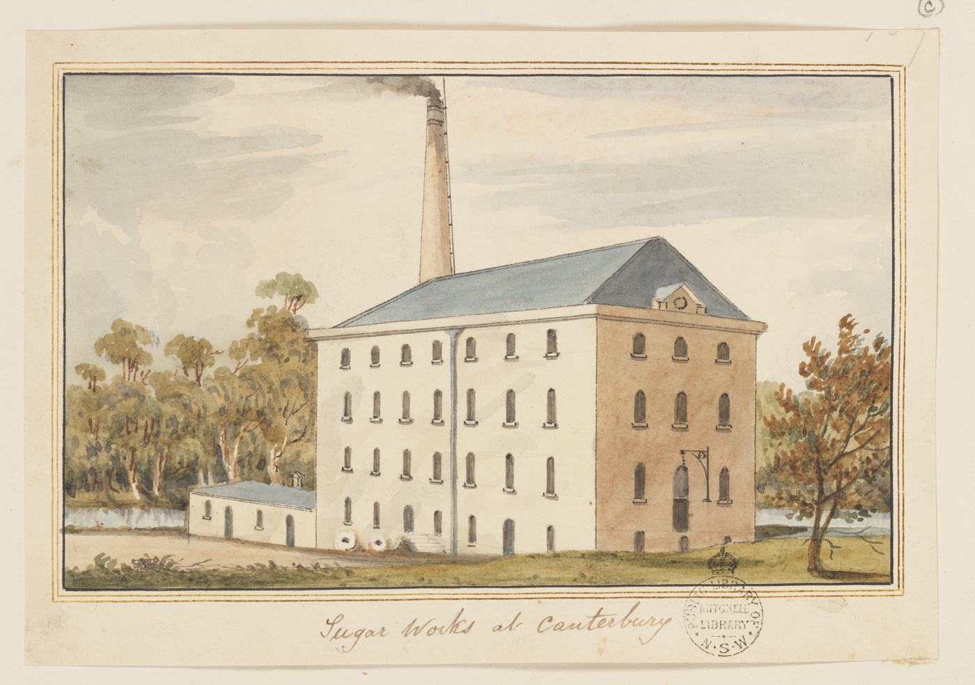 Sugar factory, Sydney, Australia